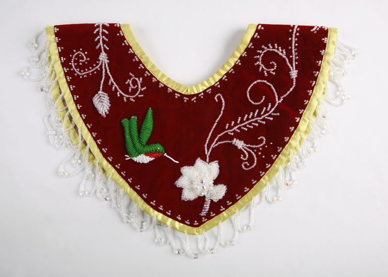 A in the permanent collection of The Children’s Museum of Indianapolis.